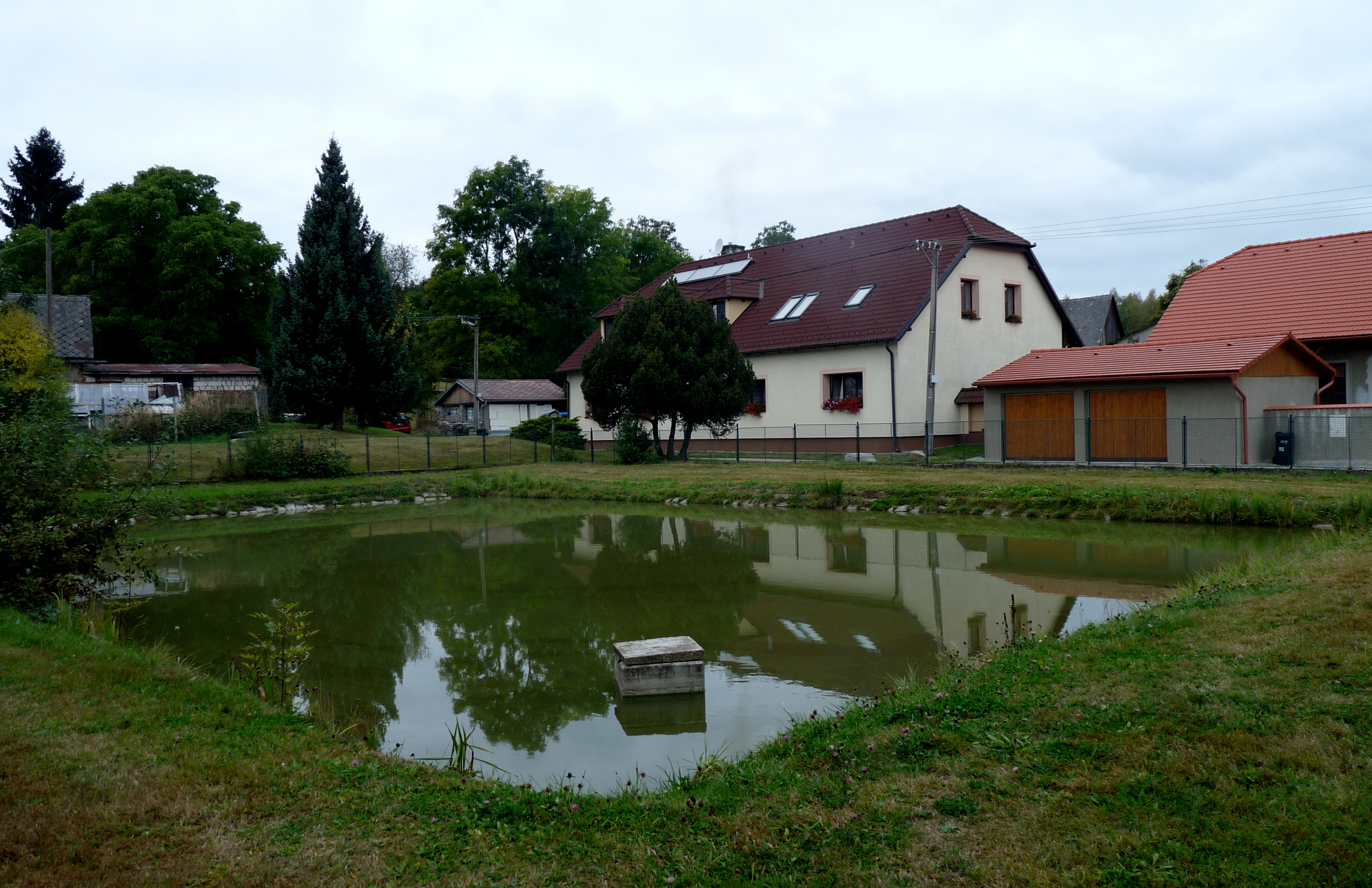 Water tank in the centre of the village of Vysoká (part of the town of Jihlava) in Jihlava District, Vysočina Region, Czech Republic.